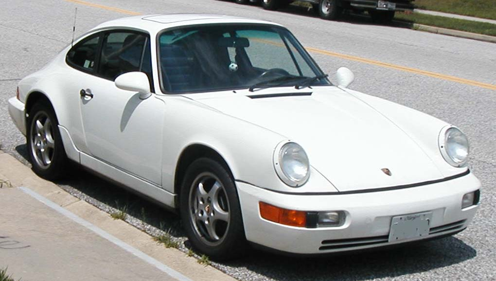 Porsche 911 964 photographed in USA.